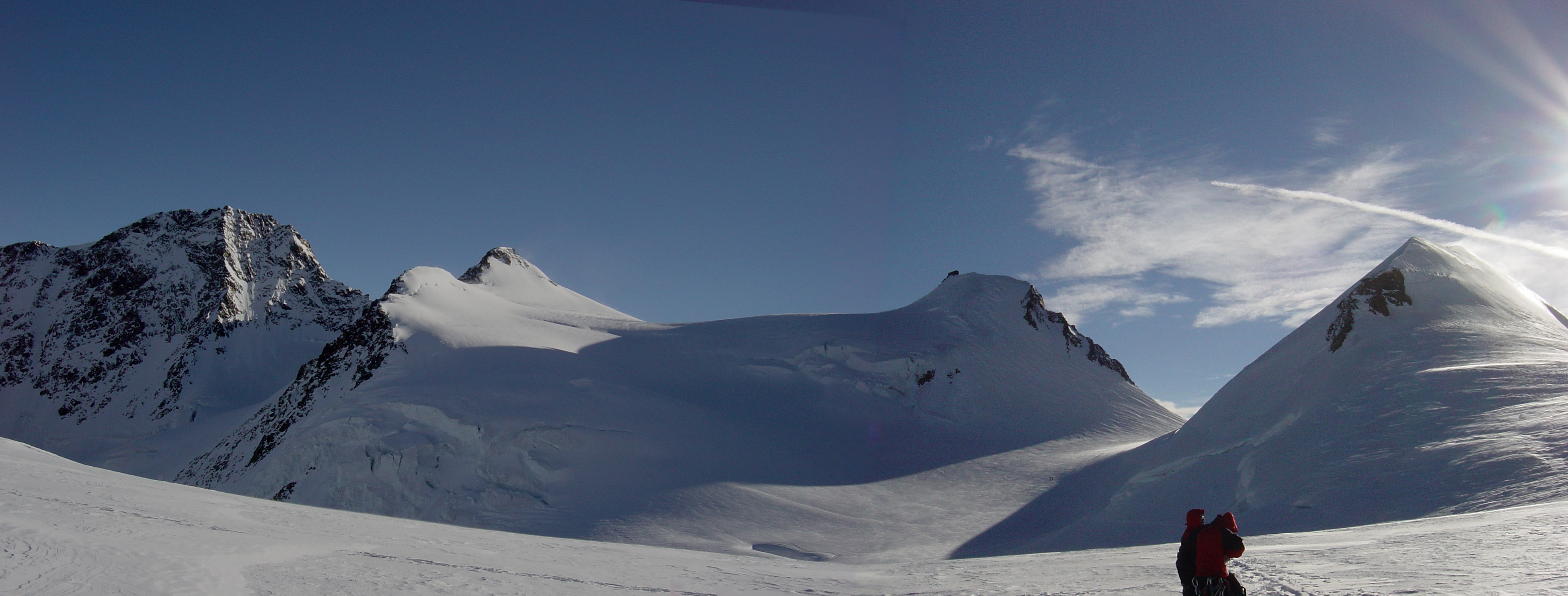 Monte Rosa panorama: (from left) Dufourspitze, Zumsteinspitze, Signalkuppe, Parrotspitze